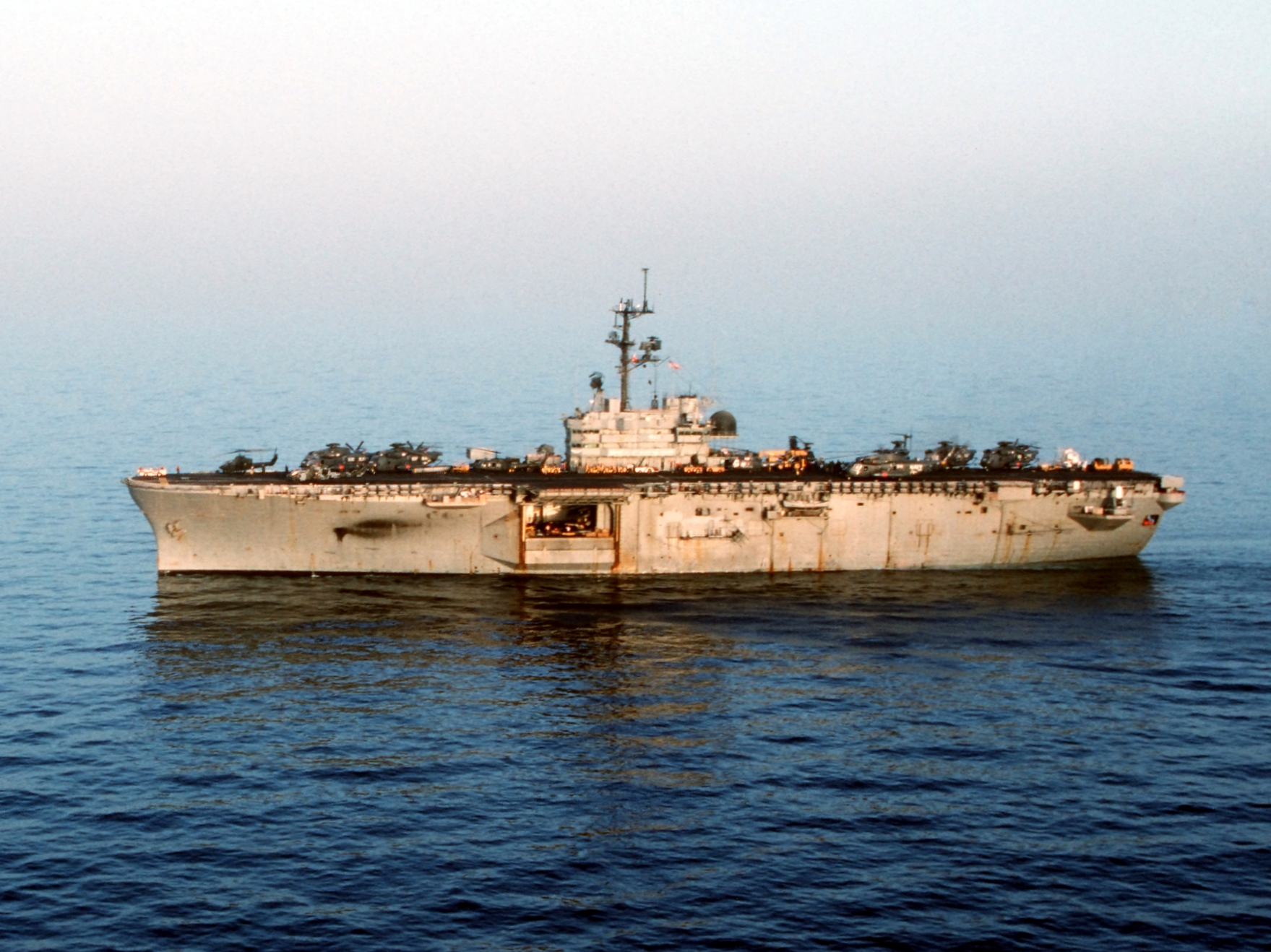 The U.S. Navy amphibious assault ship USS Okinawa (LPH-3) underway in the Persian Gulf in 1987.